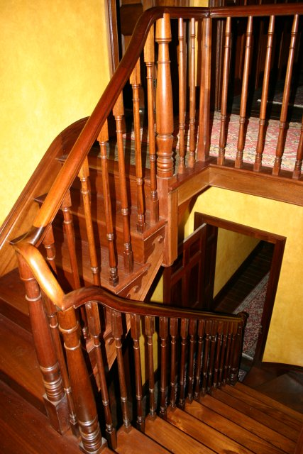 Englefield, East Maitland